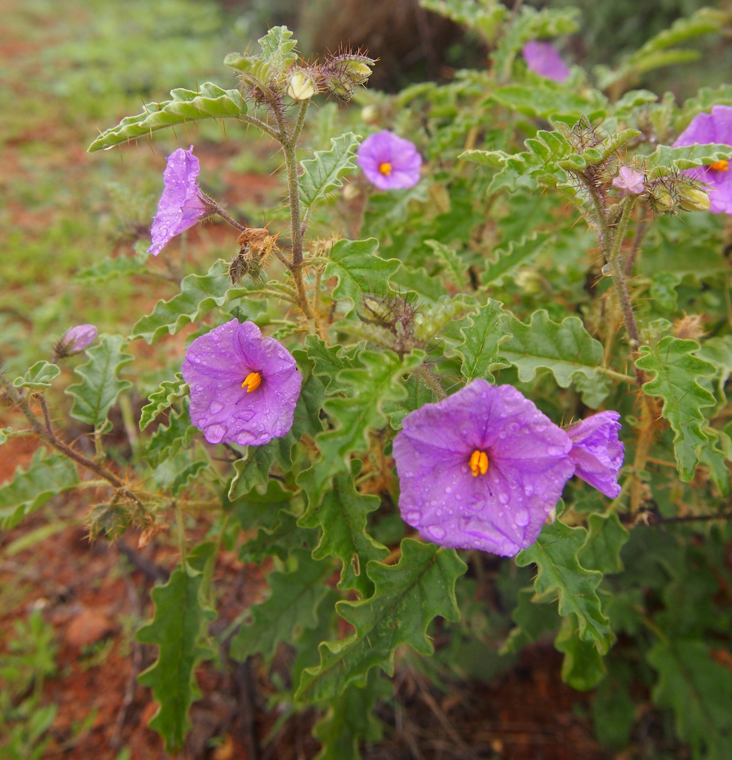 Solanum petrophilum flowers